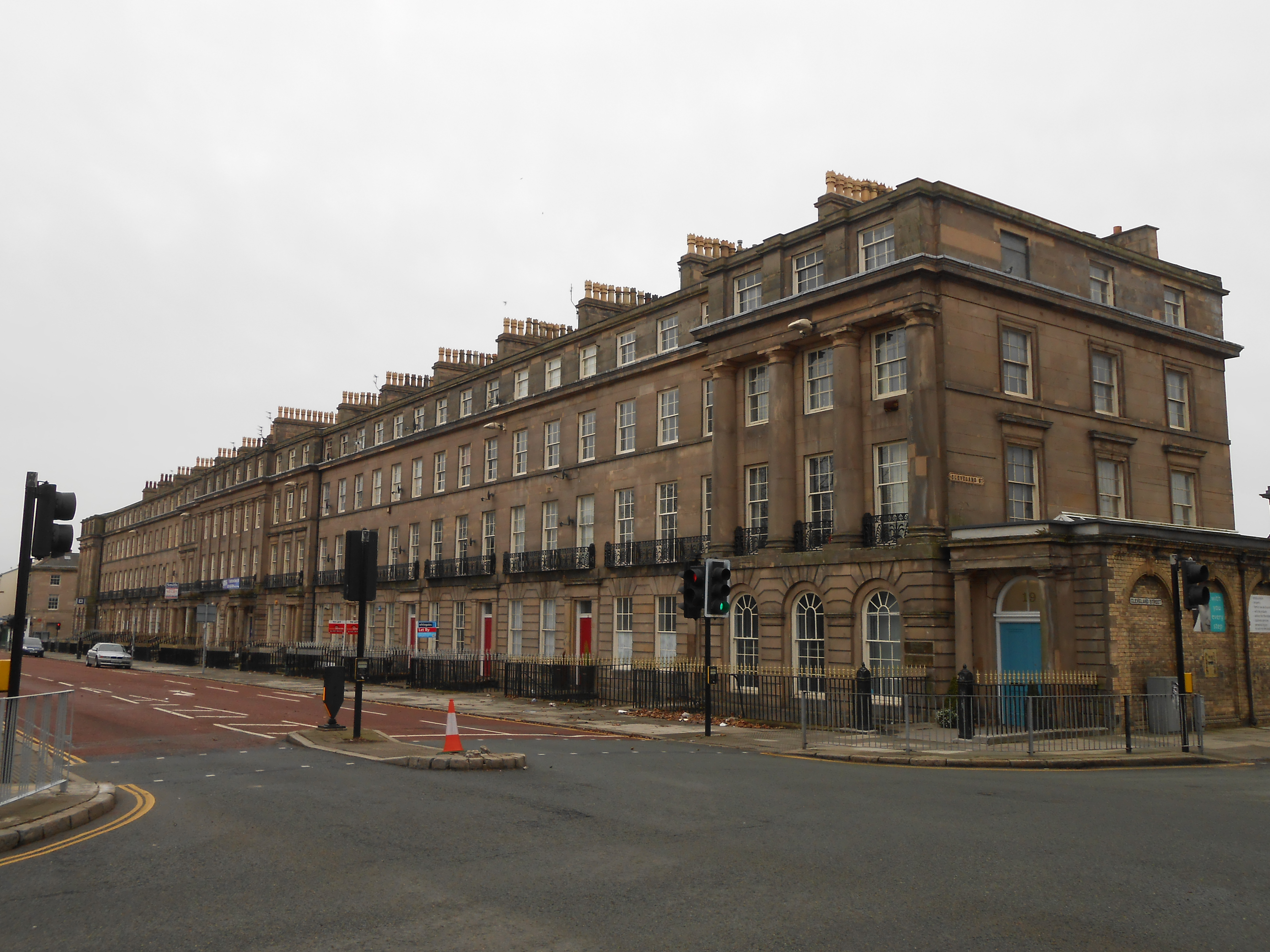 19–34 Hamilton Square, Birkenhead, Merseyside, England.